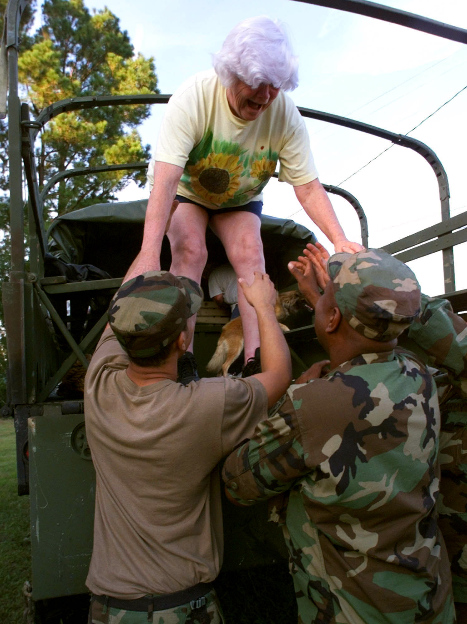 North Carolina National Guard members from Fayetteville and Bladenboro, N.C., help an unidentified woman from a Guard five-ton military truck near Tick Bite, N.C., on Sept. 18, 1999. The woman was rescued by members of the National Guard from flood waters caused by Hurricane Floyd. Hundreds of National Guard troops in North Carolina and surrounding states been called on state active duty to provide disaster and humanitarian relief for thousands of people hit by Hurricane Floyd.